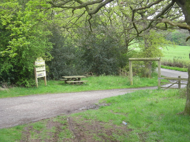 Entrance to Poles Coppice Nature Reserve